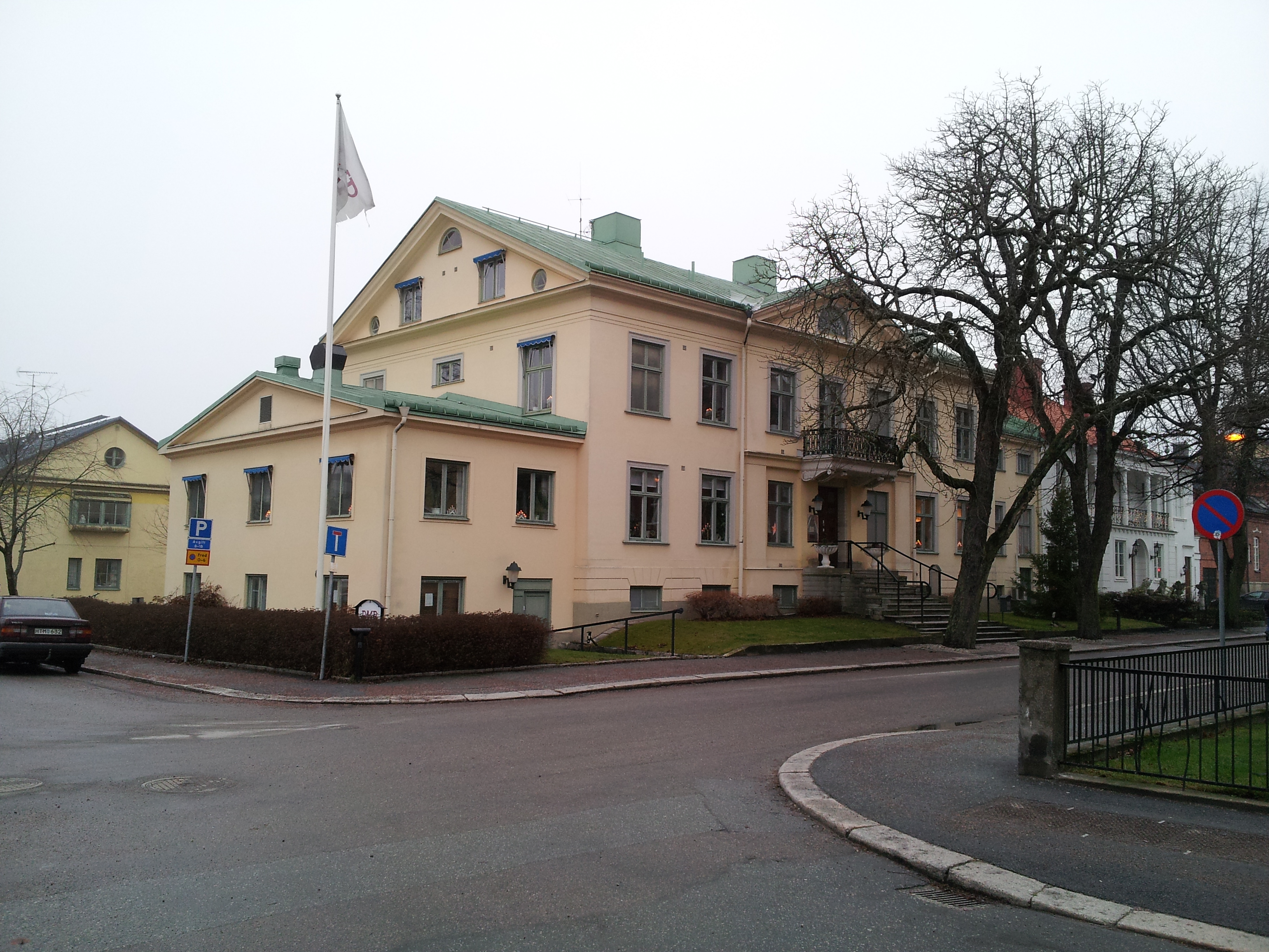 Former district-court house in Örebro, Sweden